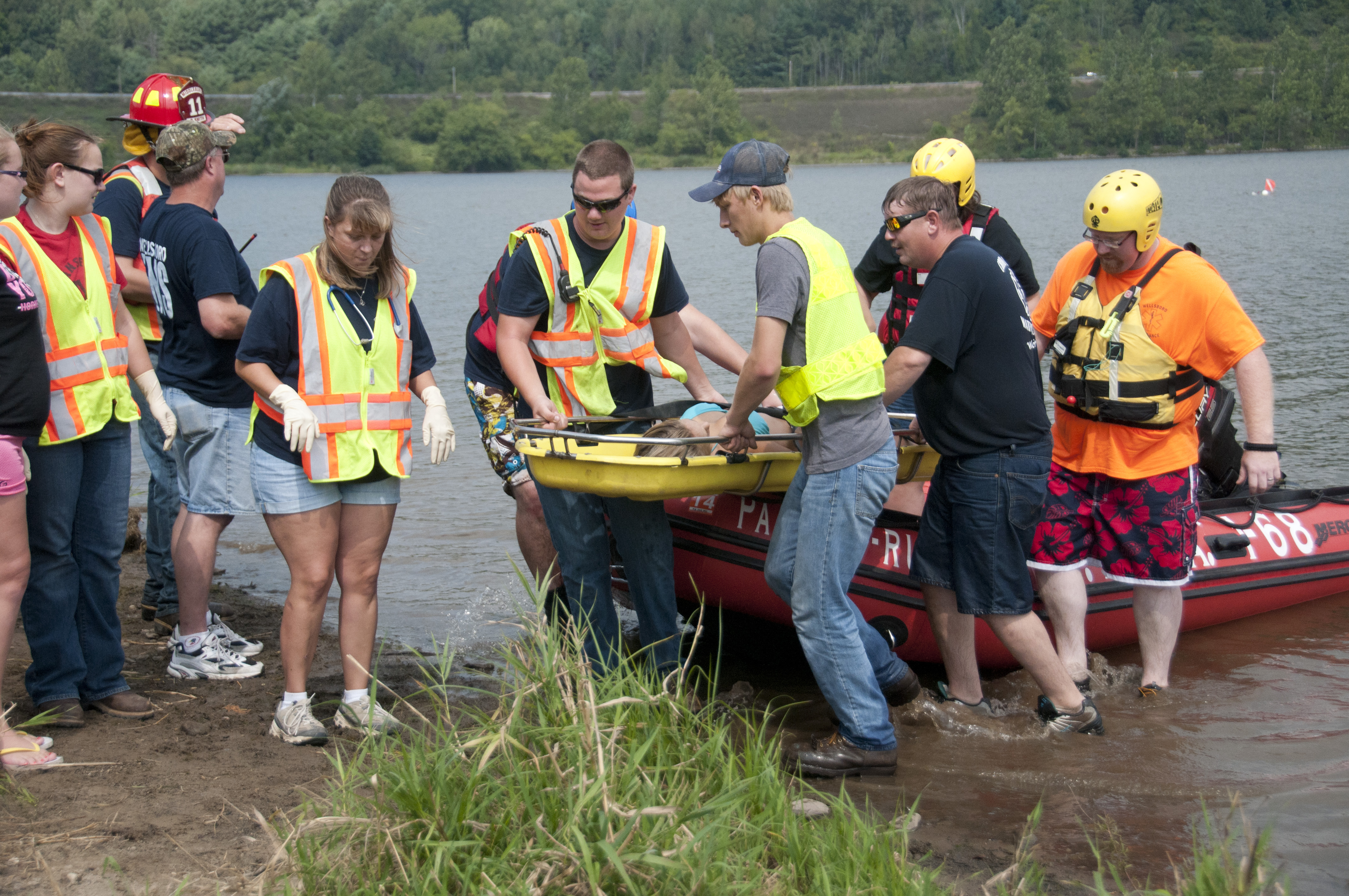 More than fifty visitors witnessed a water rescue and recovery simulation conducted by the Baltimore District at Tioga-Hammond and Cowanesque Lakes, Pa., partnering with Guthrie Air, Middlebury and Tioga Fire Departments and the Wellsboro Fire Department Dive Team, Aug. 31.